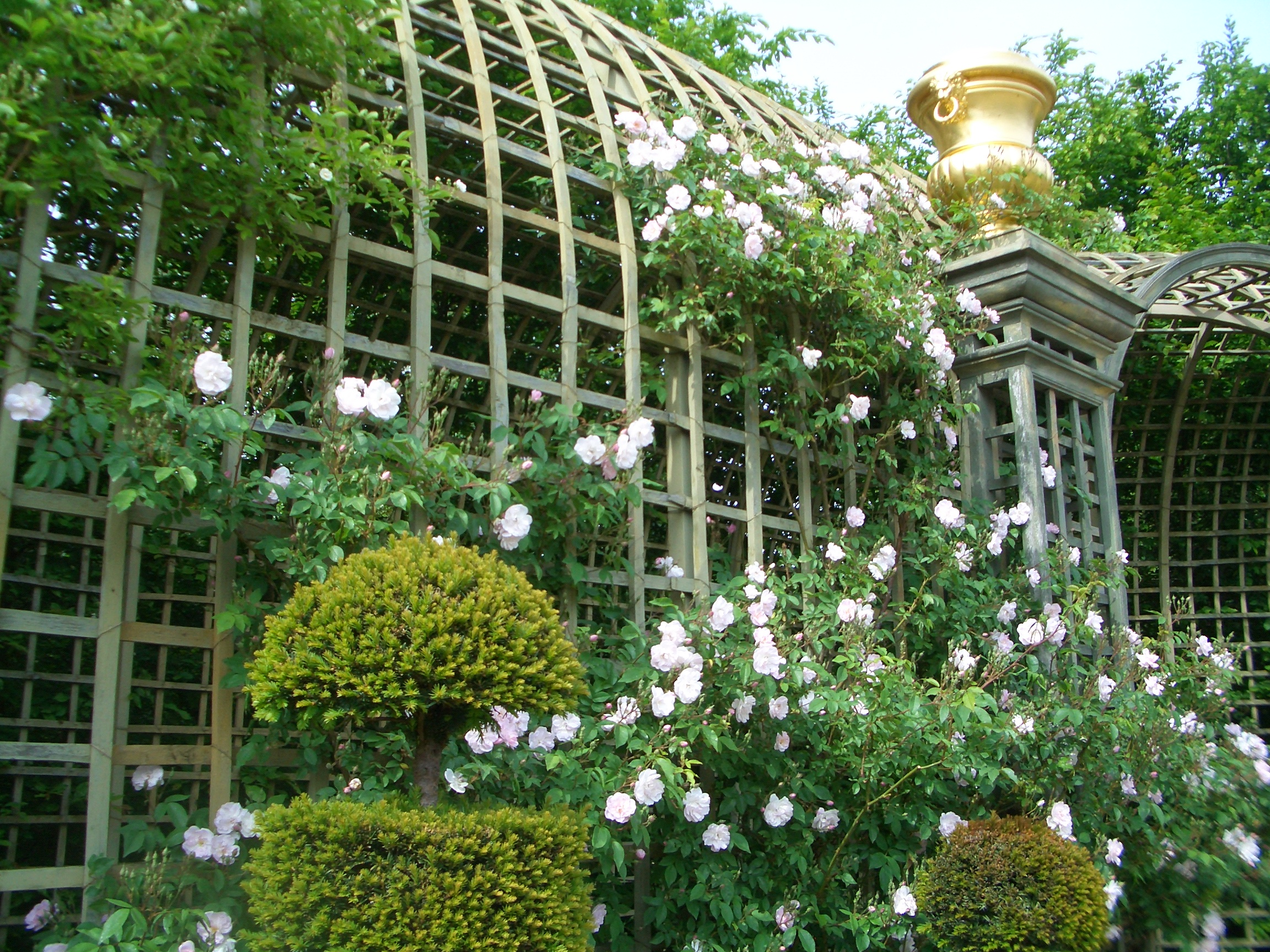 Folie in the garden from Versailles